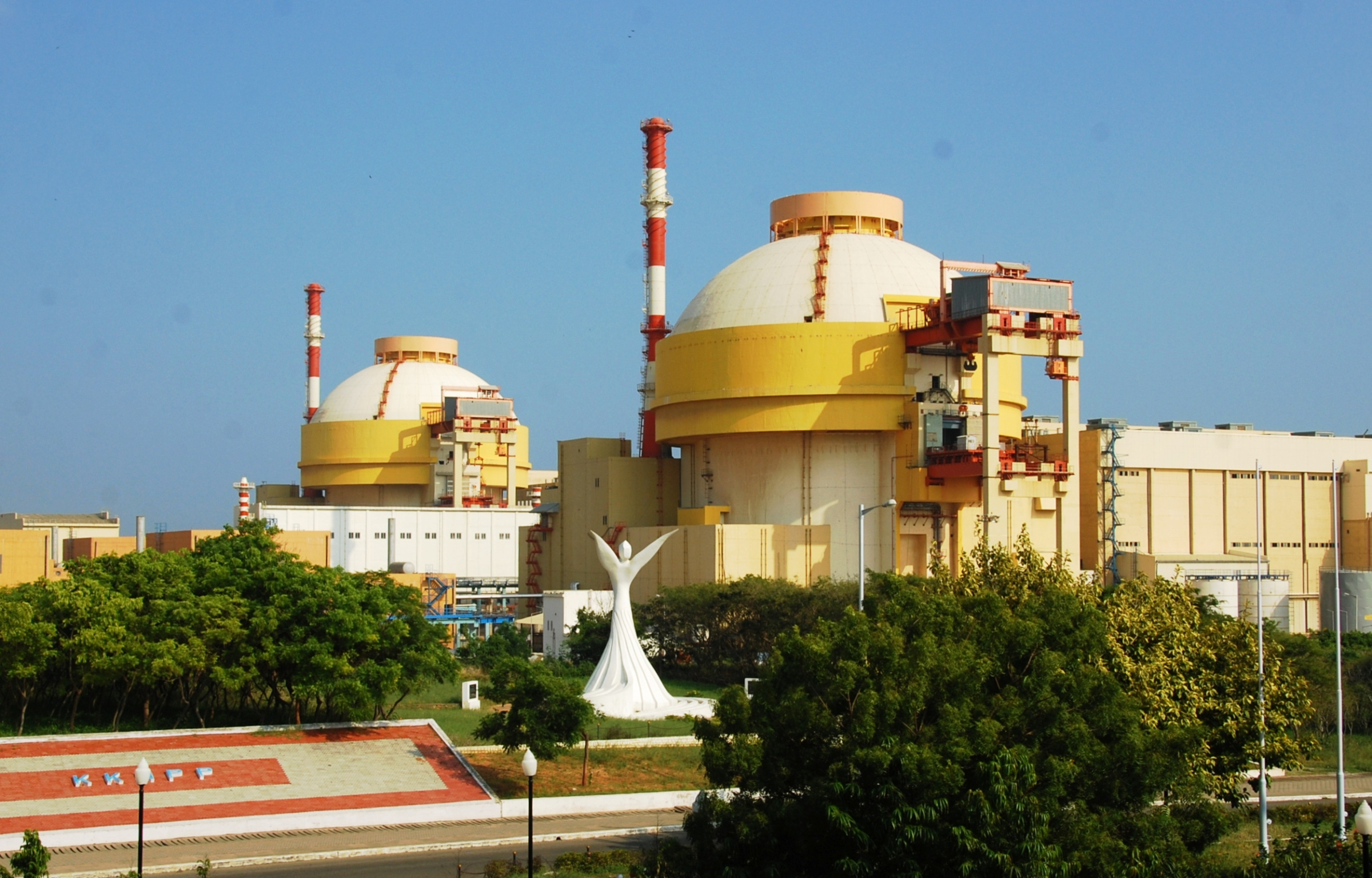 Kudankulam Nuclear Power Plant (KKNPP) Units 1 and 2 at Kudankulam in Tirunelveli district of Tamil Nadu, India